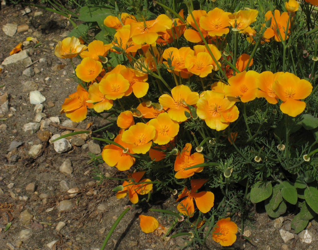 Yellow poppy bloomig in May around the Loire Valley, France